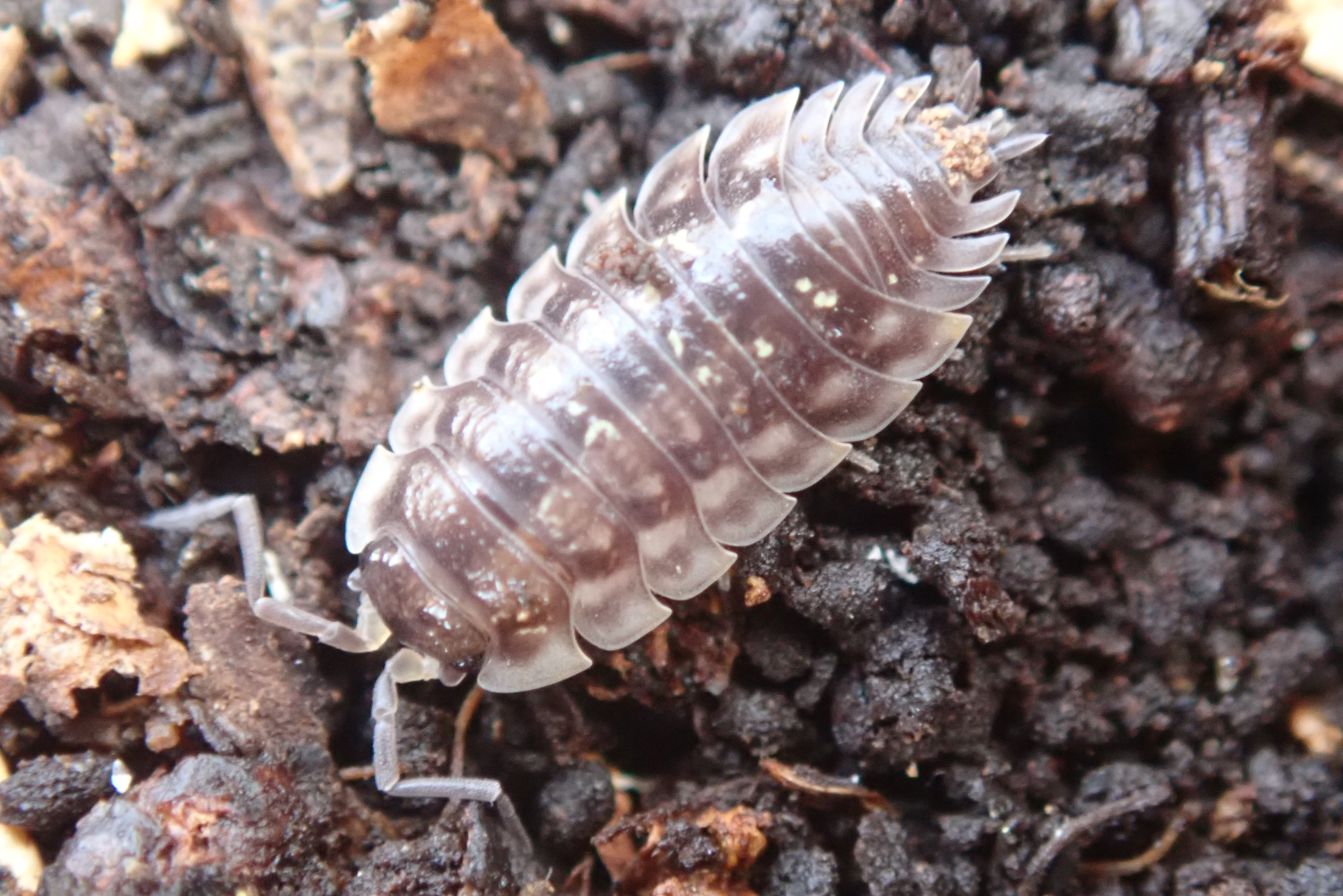 common woodlouse